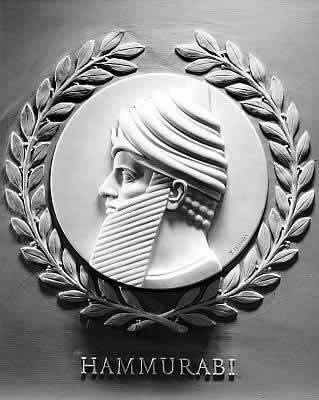 Hammurabi marble bas-relief, one of 23 reliefs of great historical lawgivers in the chamber of the U.S. House of Representatives in the United States Capitol. Sculpted by Thomas Hudson Jones in 1950. Diameter 28 inches in diameter.